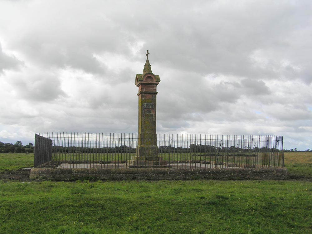 Monument marking the place where Edward I died at Burgh by Sands, Cumbria, whilst campaigning against the Scots. See egaly this file.